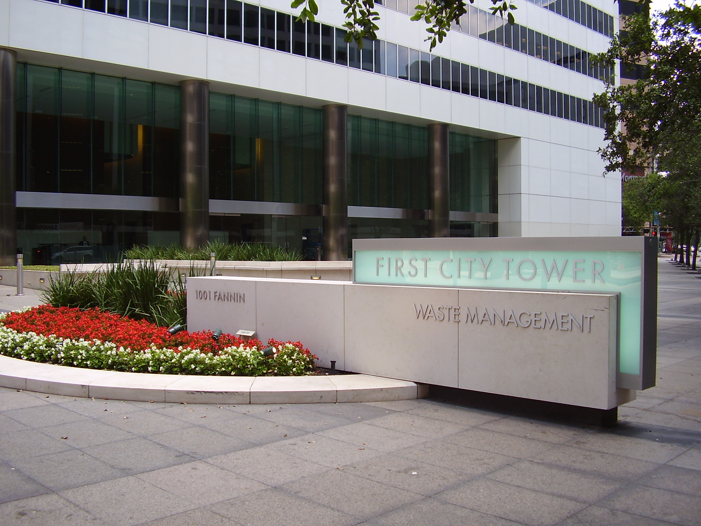 First City Tower, which has the headquarters of Waste Management, Inc